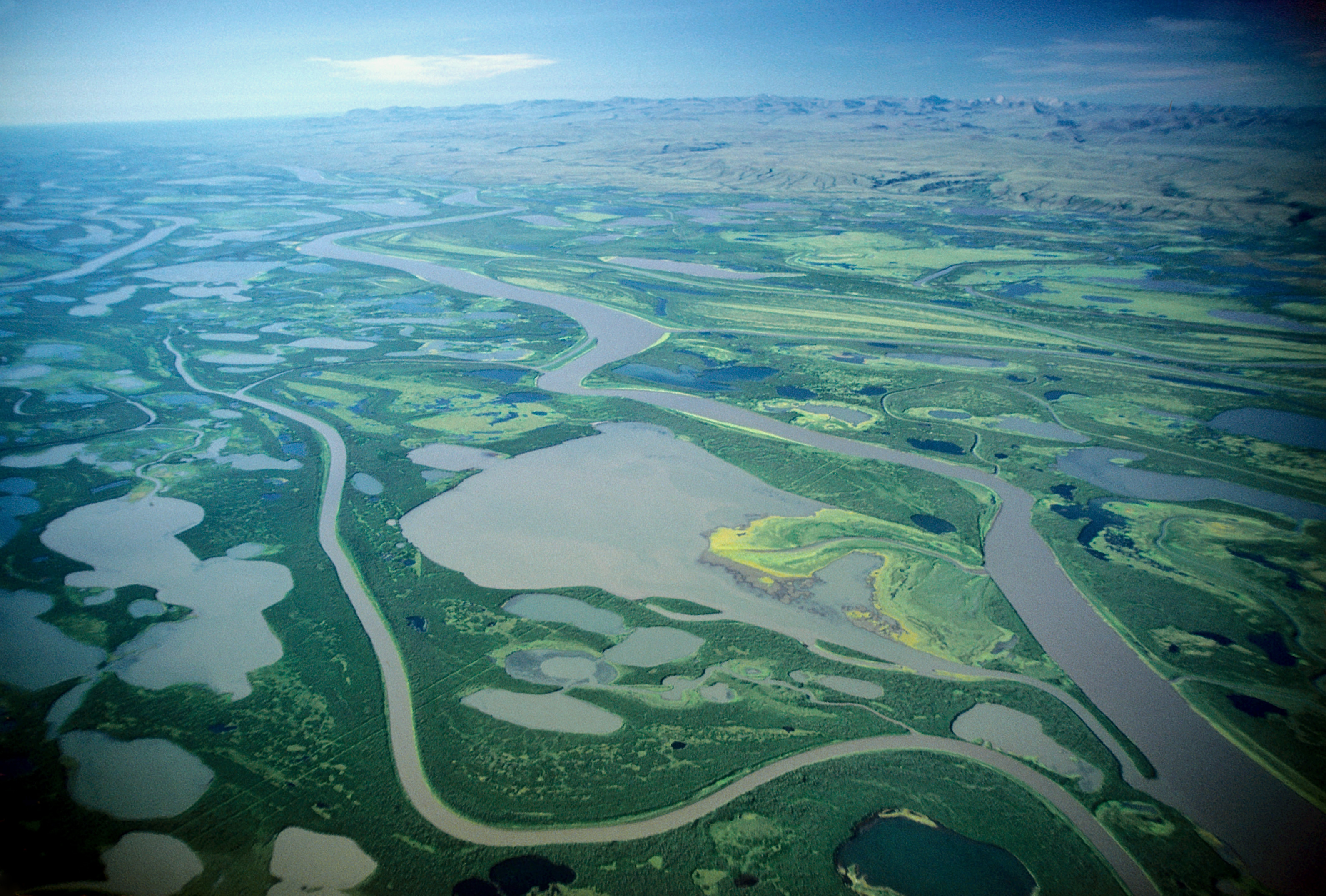 View over the Mackenzie delta with its numerous lakes and channels. The larger East Channel crosses the picture diagonally. During the flood period, this main channel deposited its sediments in one of the lakes thus creating a “reversed delta”. Photo: Lorenz King, JLU_Giessen.de, August 12,1987